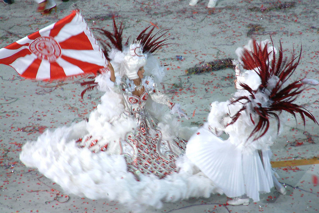 Rio Carnival 2003 Photo: Andrei Snitko